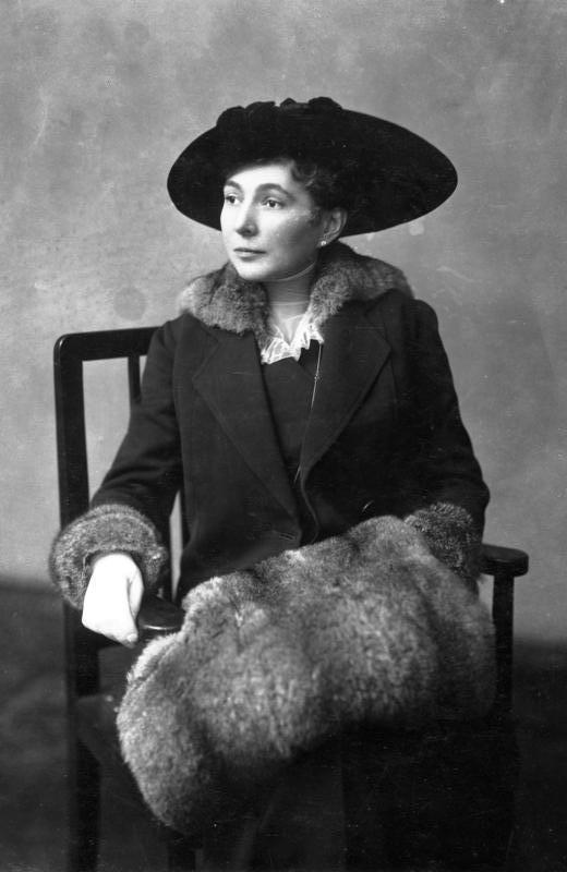 Margarethe Ludendorff